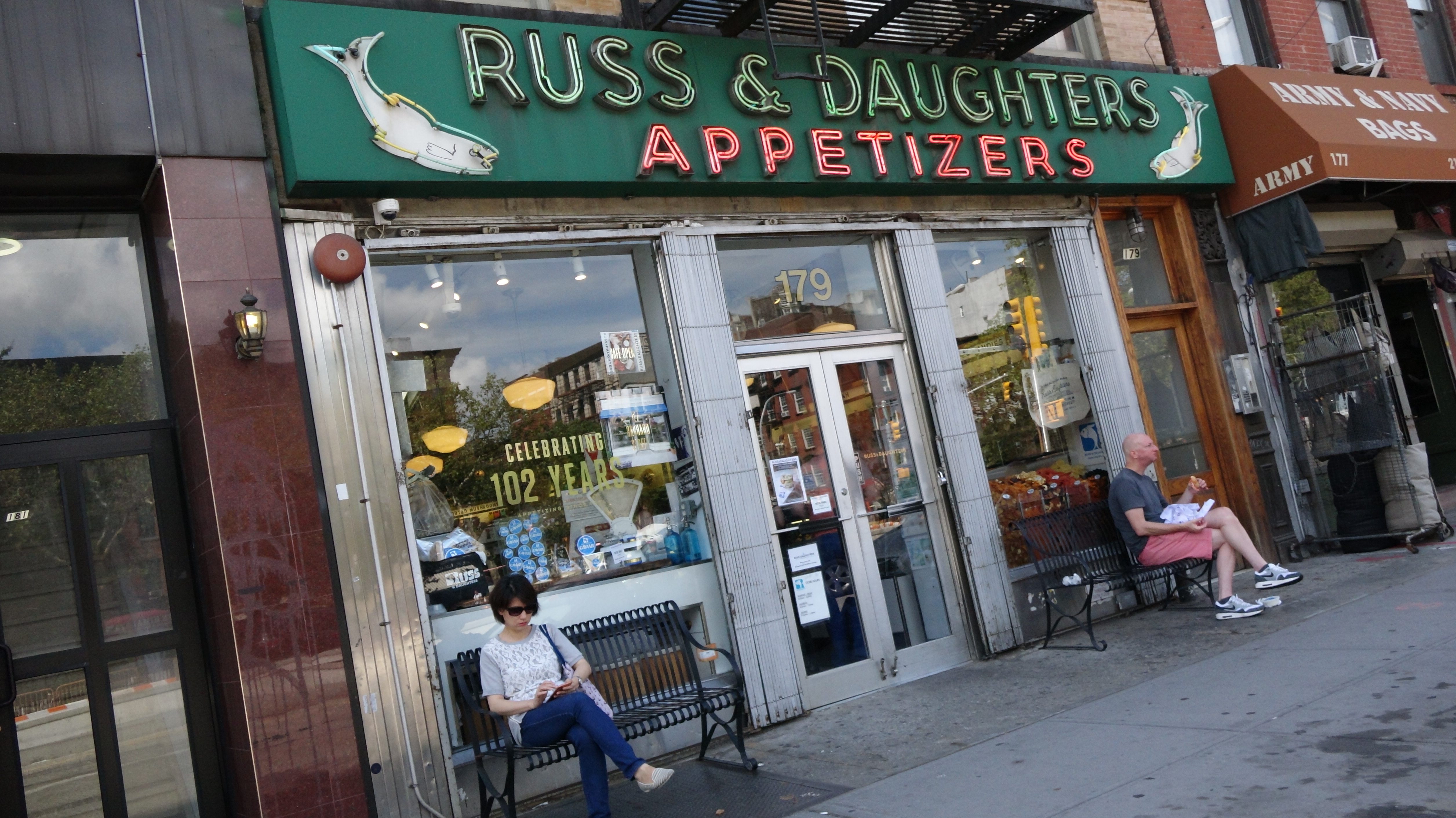 in New York City